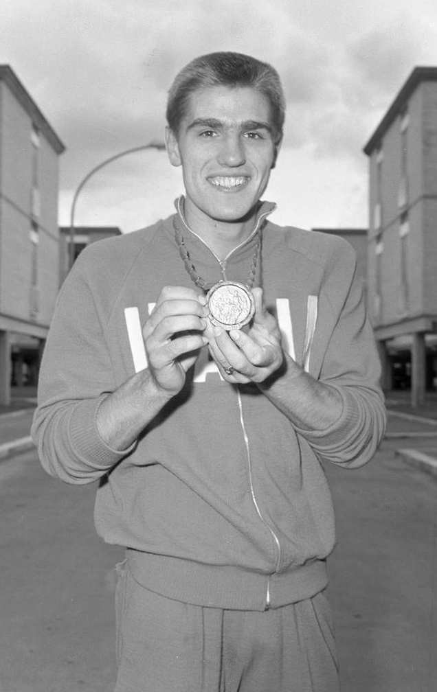 Nino Benvenuti at the Rome Olympics